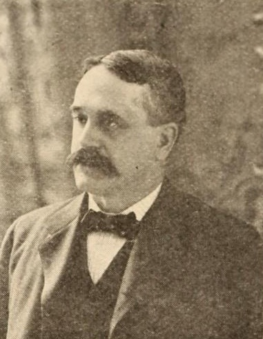 Portrait of New York state senator James D. Feeter